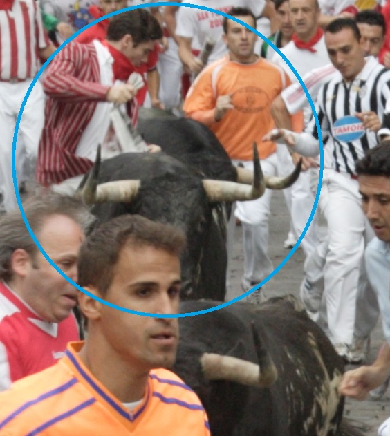 Alexander Fiske-Harrison running between two Torrestrealla bulls in calle Estafeta in Pamplona